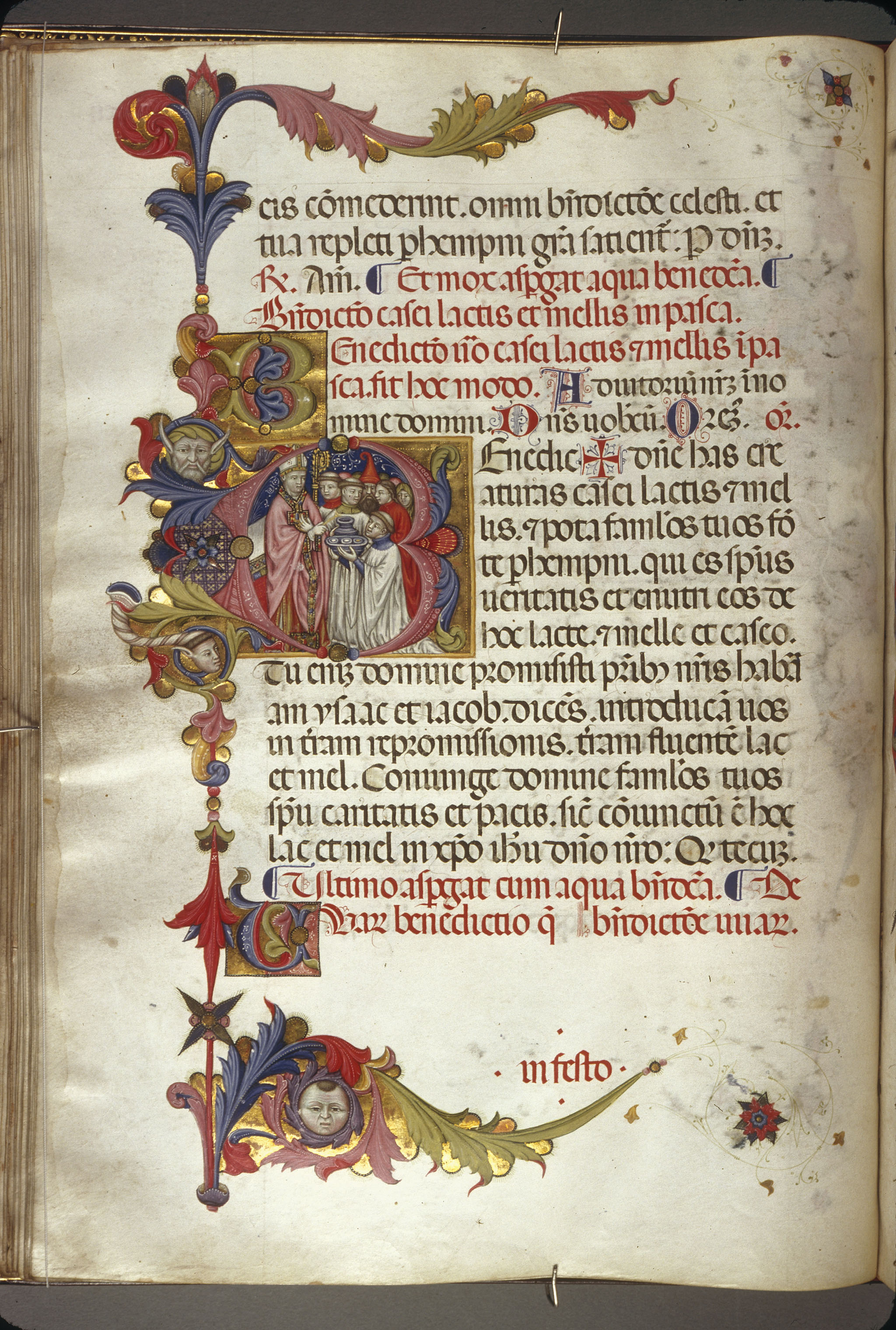 Pontifical, ink, tempera and gold leaf on parchment, 380 x 270 mm